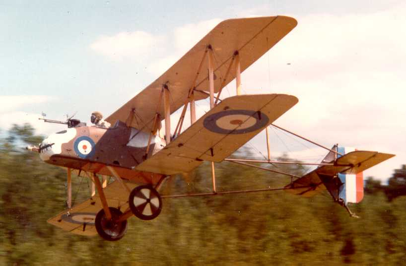 Cole Palen's F.E.8 reproduction in flight at Old Rhinebeck Aerodrome, early 1980s during one of the Aerodrome's weekend airshows.